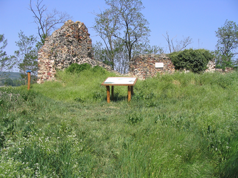 The ruins of the Kereki-Káli church near Mindszentkálla